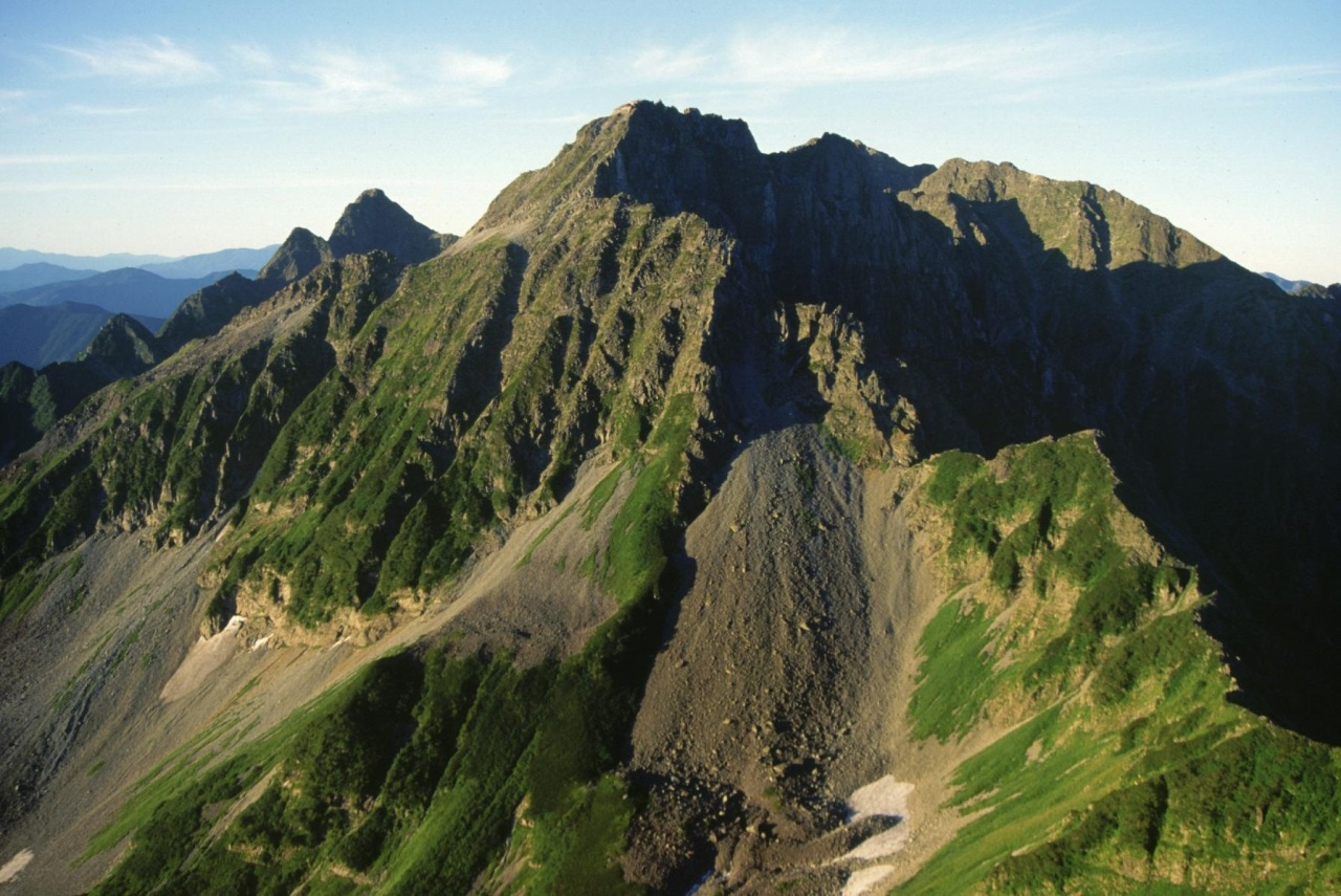 Mount Hotaka seen from Mount Minami in Hida Mountains, Japan.